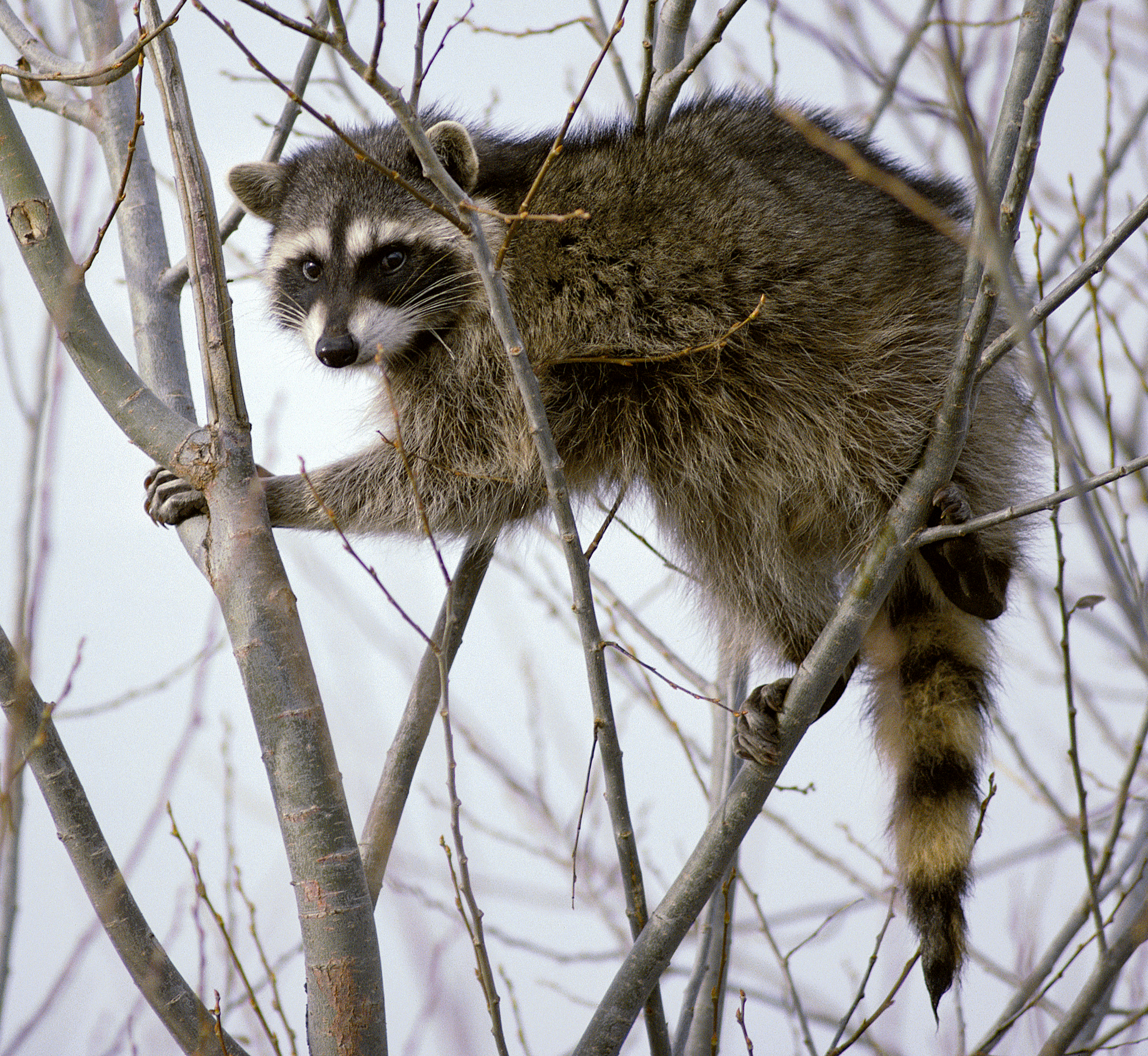 Raccoon photographed Lower Klamath National Wildlife Refuge in California Original photo cropped and color corrected.